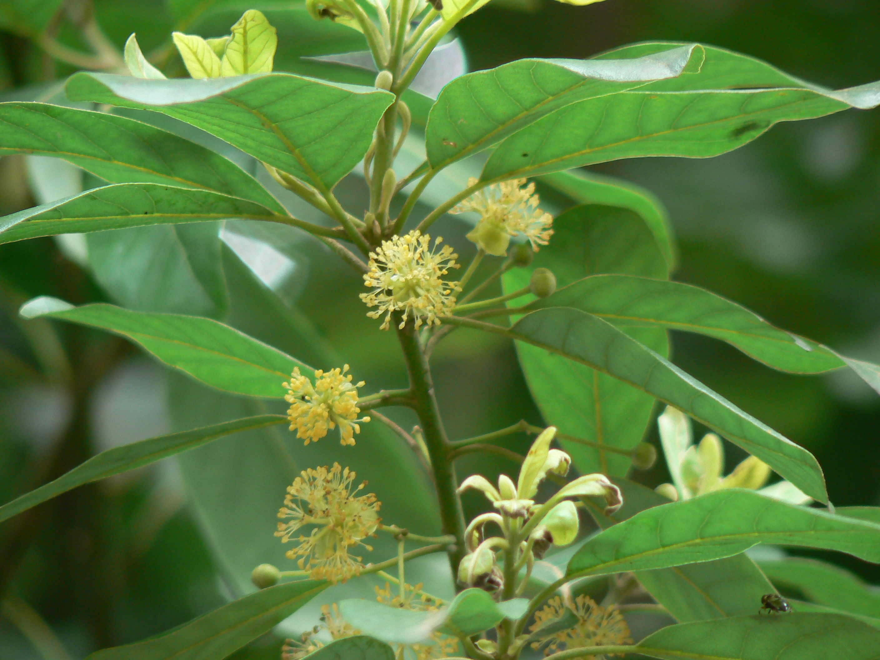 Lauraceae (laurel family) » Litsea deccanensis LIT-see-a -- from the Chinese litse or Ii, meaning small, little day-kahn-NEN-sis -- of or from Deccan peninsula, India commonly known as: Deccan tallow laurel, Ganapaty tree • Konkani: चिकना chikna • Marathi: चिकणा chikna • Telugu: నర్రమామిడి narramamidi Native to: Western India, Deccan Peninsula (India), Sri Lanka References: eFlora • Forest Flora of Andhra Pradesh